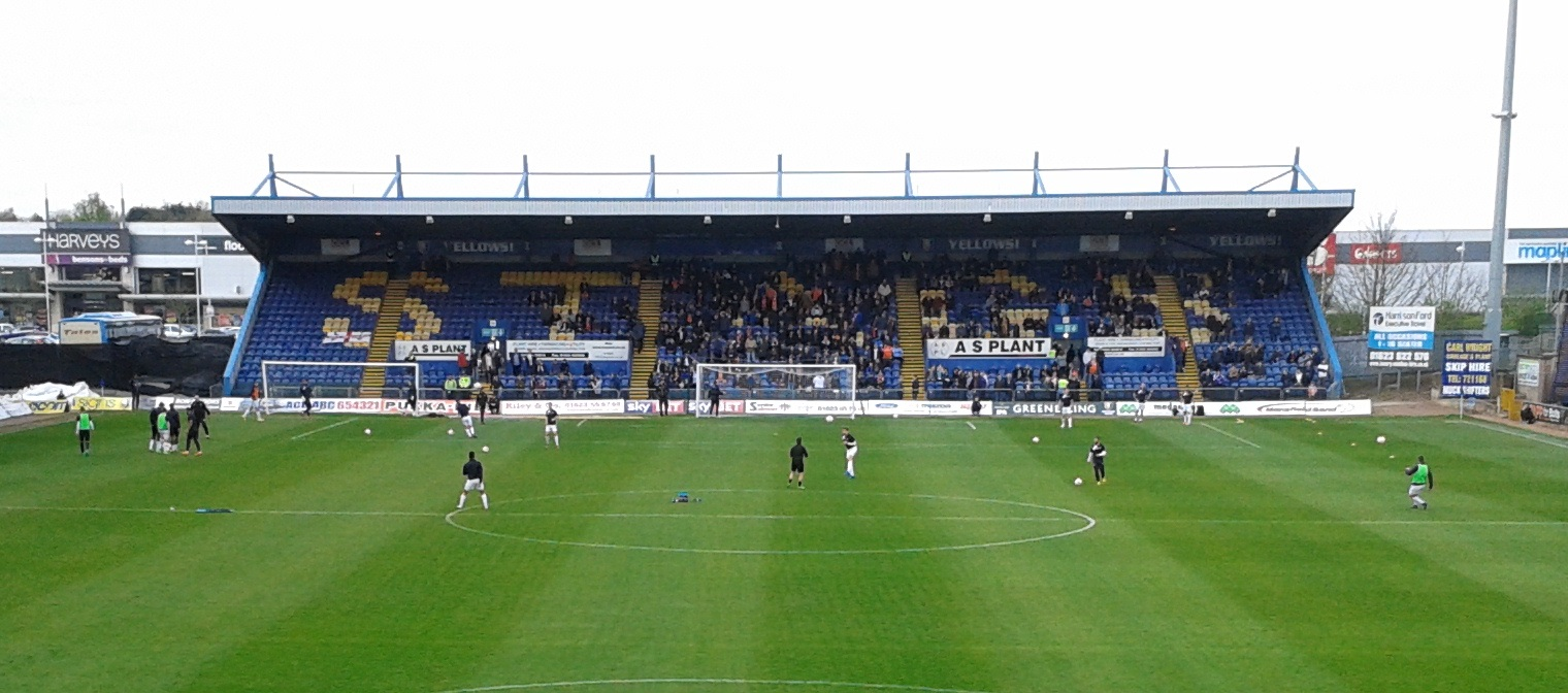 Field Mill Quarry Lane End